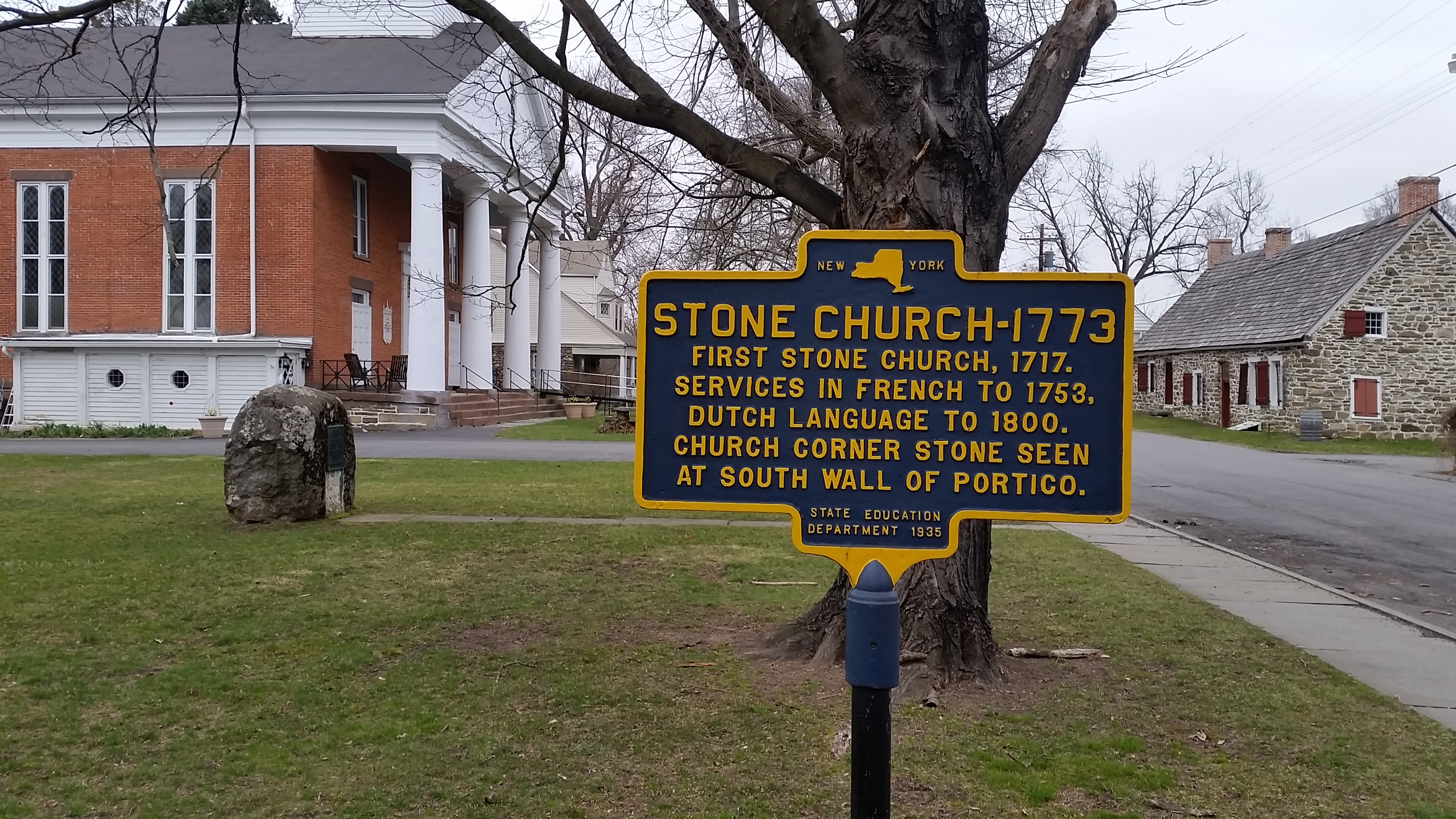 NY State Historic Marker at New Paltz's Huguenot Street Historic District for the Stone Church